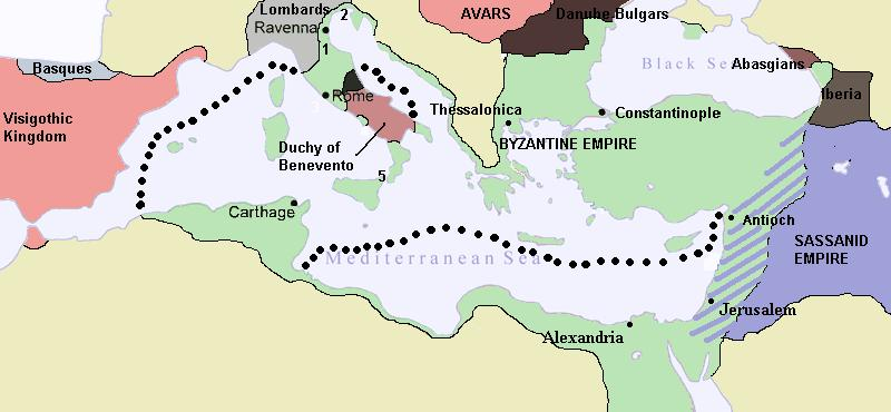 The Byzantine Empire by 626 AD at the end of the Byzantine-Sassanid wars after Heraclius reconquered Syria, Palestine and Egypt from the Sassanids. Striped sections are territories raided by the Sassanids